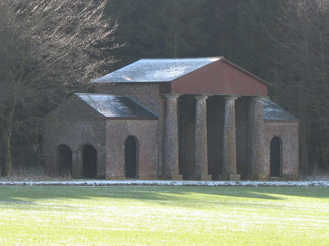 Sledmere Deer House, Sledmere, East Riding of Yorkshire, England.A rather elaborate structure in Sledmere deer park overlooking Sledmere House. The park being designed by Capability Brown.